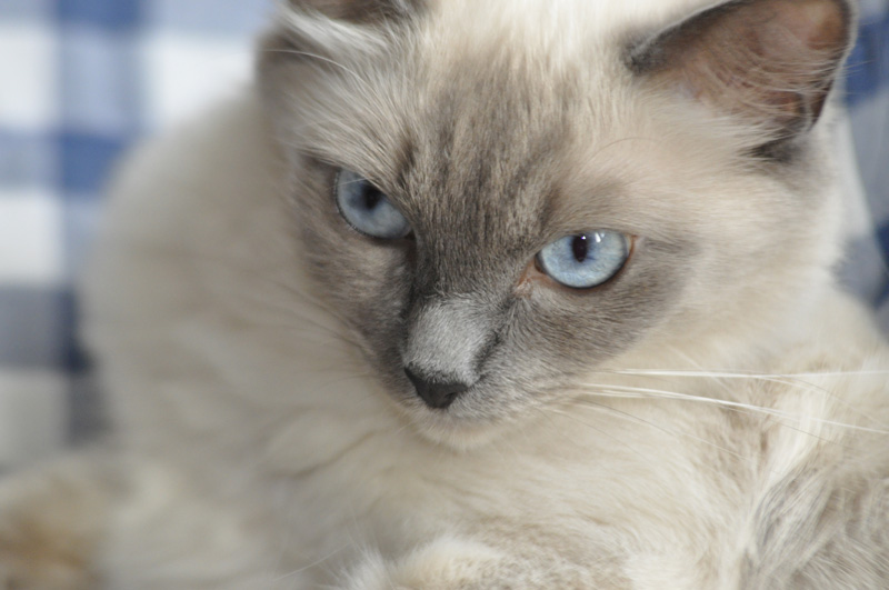 Ragdoll blue point